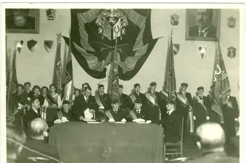 Celebration of the 17th anniversary of Neo-Lithuania organization. Neo-Lithuania is a national organization of Lithuanian students, operating in 1922–1940 at the Vytautas Magnus University, 1955–1993 in the diaspora, and since 1990 - again in Lithuania.